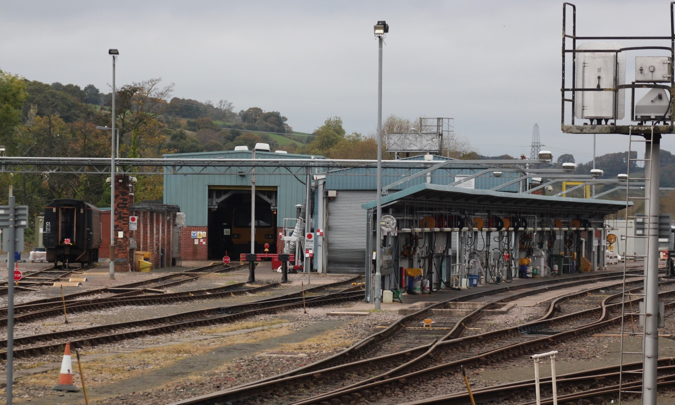 'Pacer' 143603 is being repaired at Great Western Railway's train care depot opposite St Davids station in Exeter.